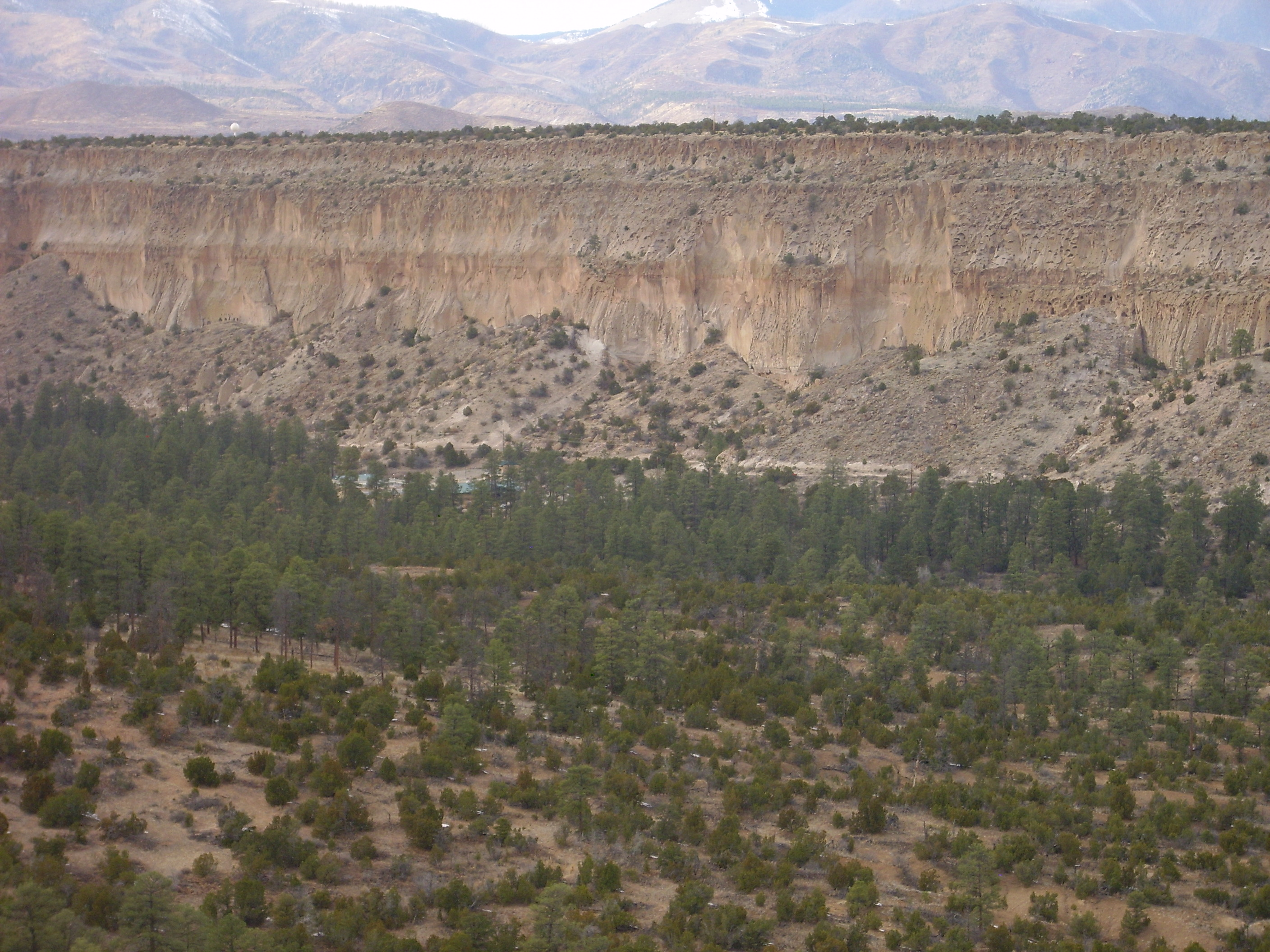 This image shows Kwage Mesa, an example of a finger mesa underlain by Bandelier Formation in the Pajarito Plateau, New Mexico, United States. The Bandelier Formation is a well-studied Quaternary ignimbrite sequence.